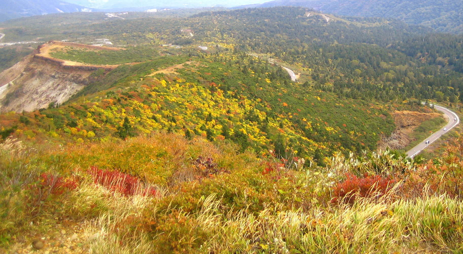 EchoLine (Miyagi side) from Zao Mt.